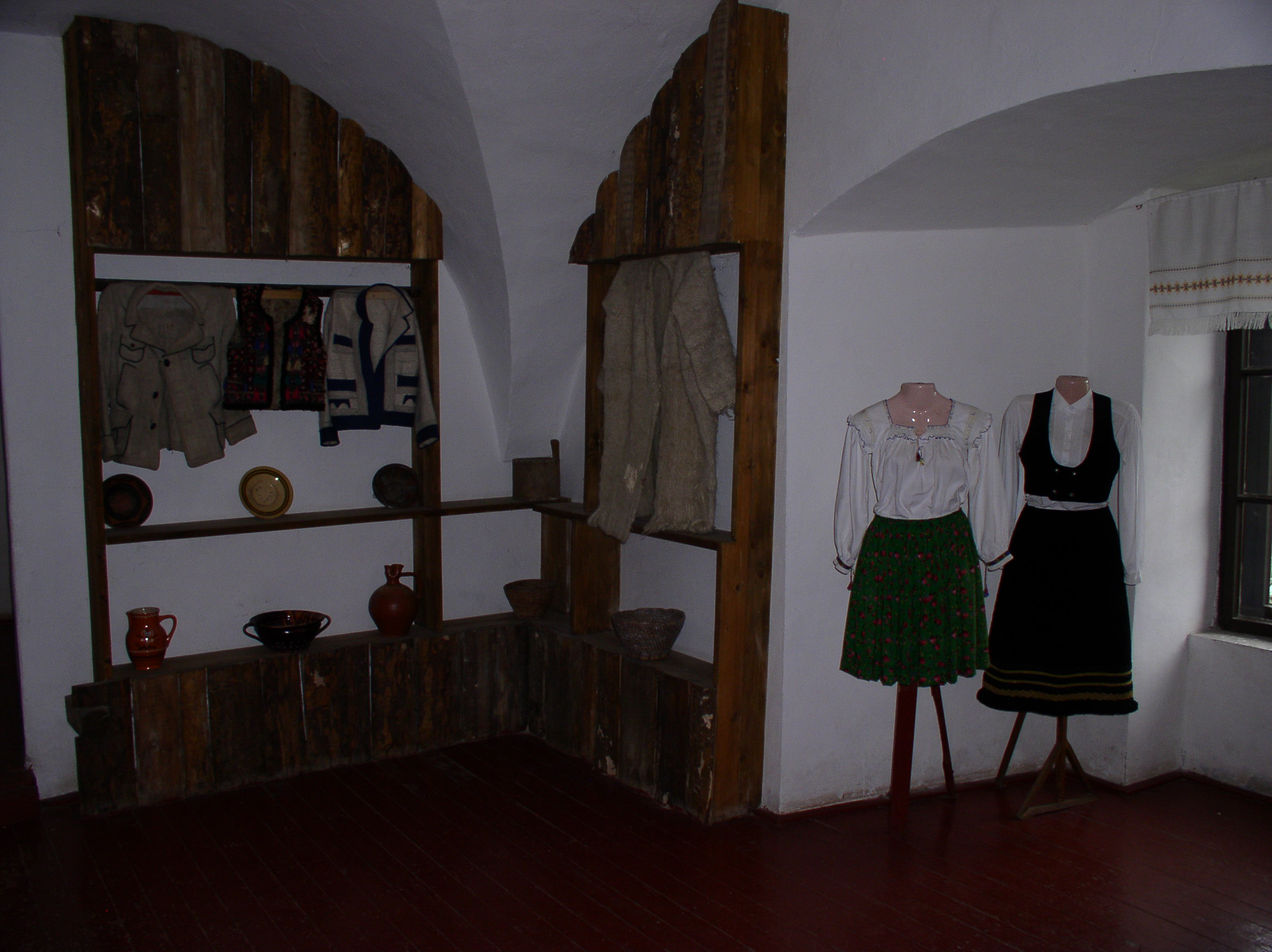 Museum exposition. Palanok сastle. Mukacheve, Ukraine.